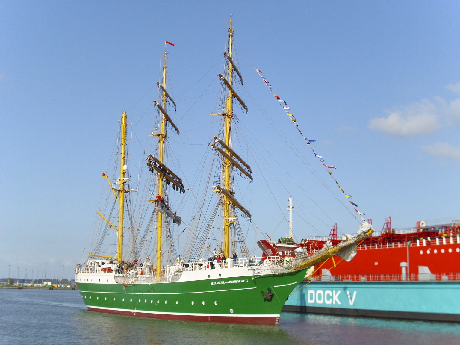 The sailing ship Alexander von Humboldt II in the port of Bremerhaven